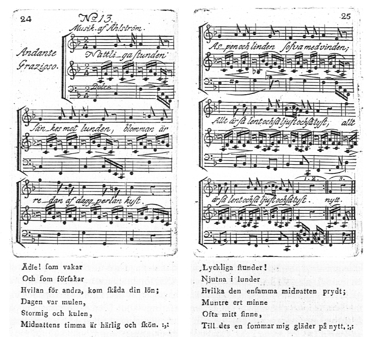 Sommarnatten [Musical notes]. Text: Michael Choraeus. Music: Olof Åhlström